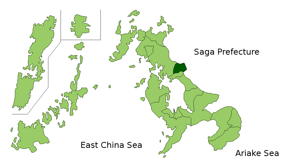 The location of Hasami in Nagasaki Prefectuur, Japan